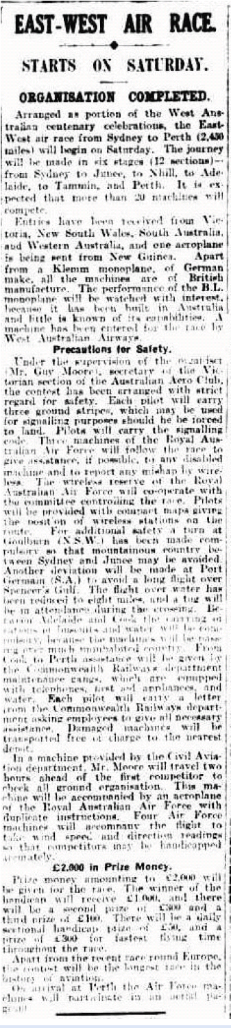 News article from the Melbourne Age, announcing the Western Australian Centenary Air Race.